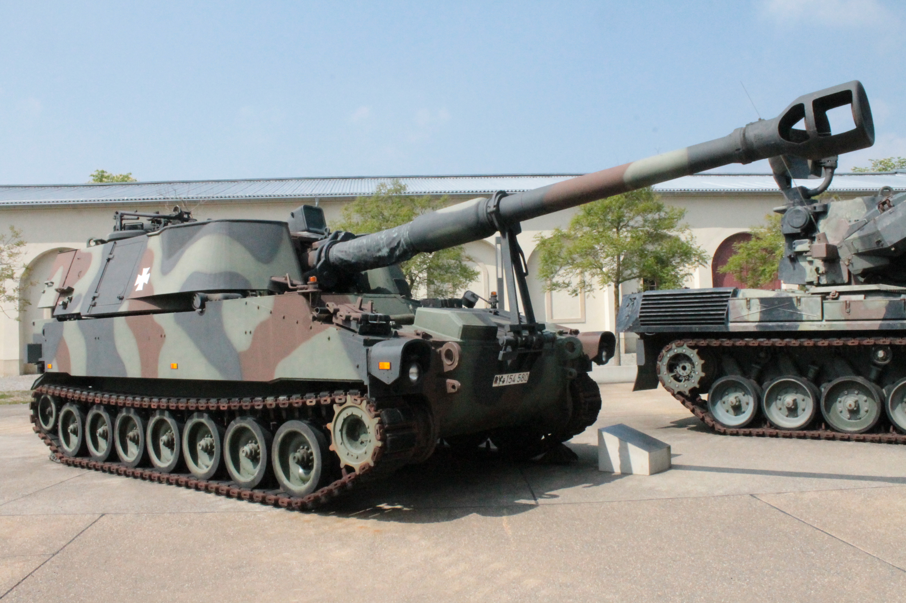 M109 A3 self-propelled howitzer